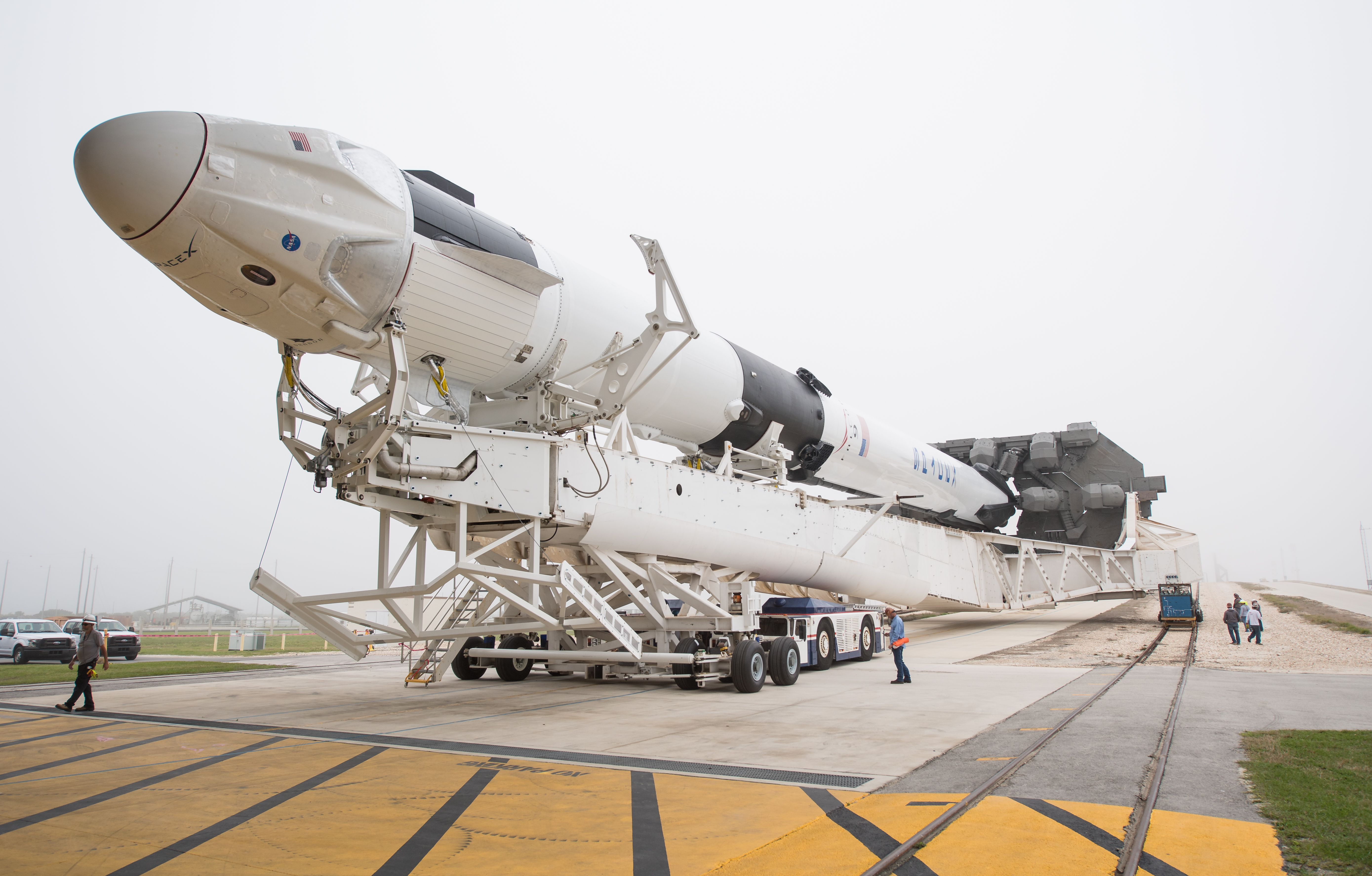 A SpaceX Falcon 9 rocket with the company's Crew Dragon spacecraft onboard is seen as it is rolled out of the horizontal integration facility at Launch Complex 39A as preparations continue for the Demo-1 mission, Feb. 28, 2019 at the Kennedy Space Center in Florida. The Demo-1 mission will be the first launch of a commercially built and operated American spacecraft and space system designed for humans as part of NASA's Commercial Crew Program. The mission, currently targeted for a 2:49am launch on March 2, will serve as an end-to-end test of the system's capabilities Photo Credit: (NASA/Joel Kowsky)